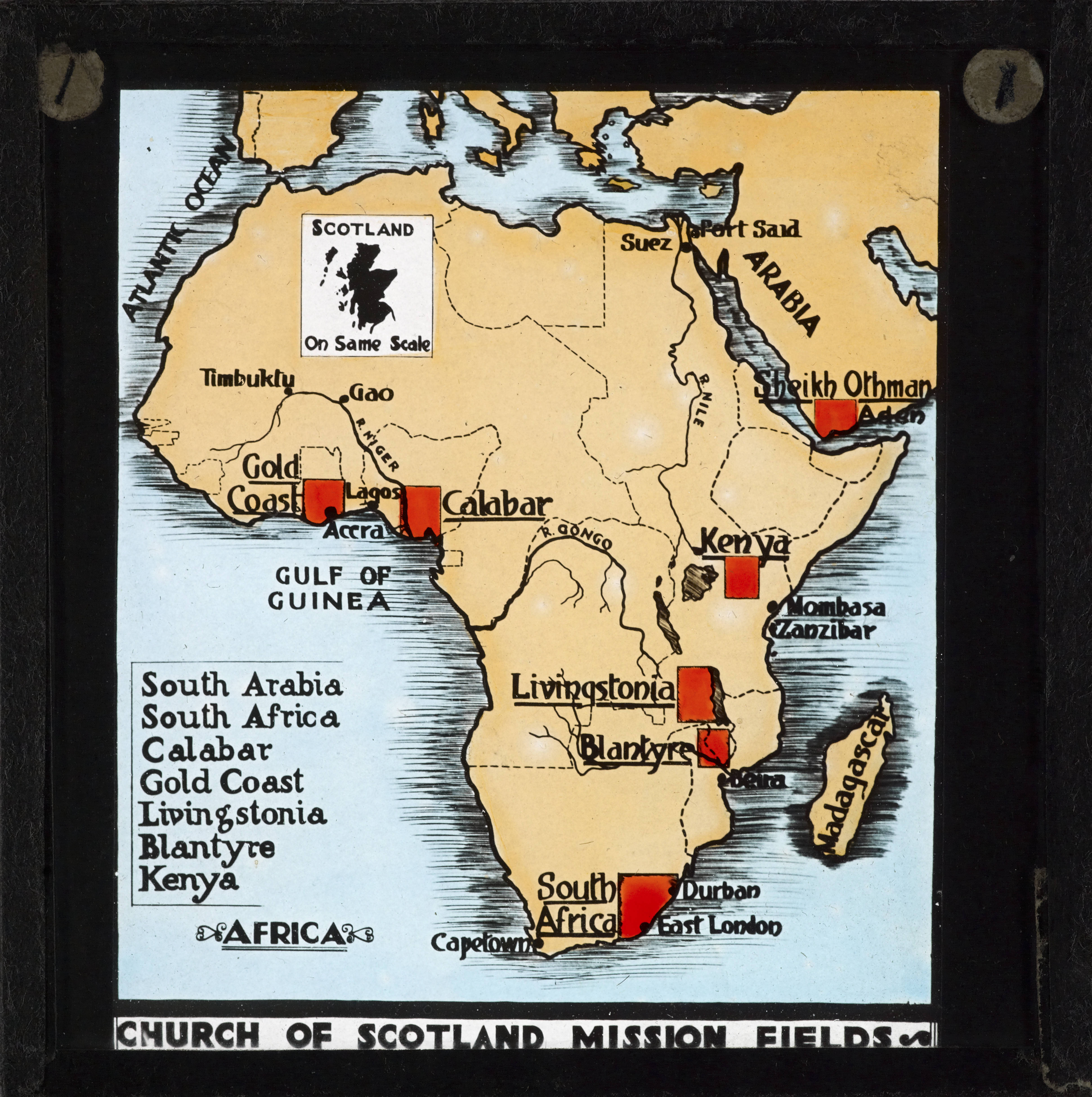 Map of Church of Scotland Mission Fields, late 19th century Map depicting the mission fields of the Church of Scotland foreign Mission Committee in the late 19th century. "South Arabia, South Africa, Calabar, Gold Coast, Livingstonia, Blantyre, Kenya” Image also contains an insert map of Scotland.; The Foreign Mission Committee (later Overseas Council then Board of World Mission and Unity) of the Church of Scotland was responsible for the Church's mission work around the world. Photographer: Unknown Filename: imp-cswc-GB-237-CSWC47-LS2-001.tif Coverage date: circa 1880 Part of collection: International Mission Photography Archive, ca.1860-ca.1960 Type: images Part of subcollection: Photographs from the Centre for the Study of World Christianity, University of Edinburgh, U.K., ca.1900-ca.1940s Repository name: Centre for the Study of World Christianity Archival file: impaunpub_Volume7/1276.url Geographic subject (city or populated place): Livingstonia; Blantyre Repository address: The University of Edinburgh School of Divinity, New College, Mound Place, Edinburgh EH1 2LX, United Kingdom Geographic subject (country): South Africa; Ghana; Kenya; Nigeria Format (aacr2): 1 lantern slide : 8 x 8 cm. Geographic subject (continent): Africa Rights: Contact the repository for details. Part of series: Mary Slessor LS2 Repository Subject (lcsh Keyword): maps Date created: circa 1880 Publisher (of the digital version): University of Southern California. Libraries Subject (aat genre): topographical views Format (aat): lantern slides Legacy record ID: impa-m68141 Access conditions: File: GB 237 CSWC47/LS2/1